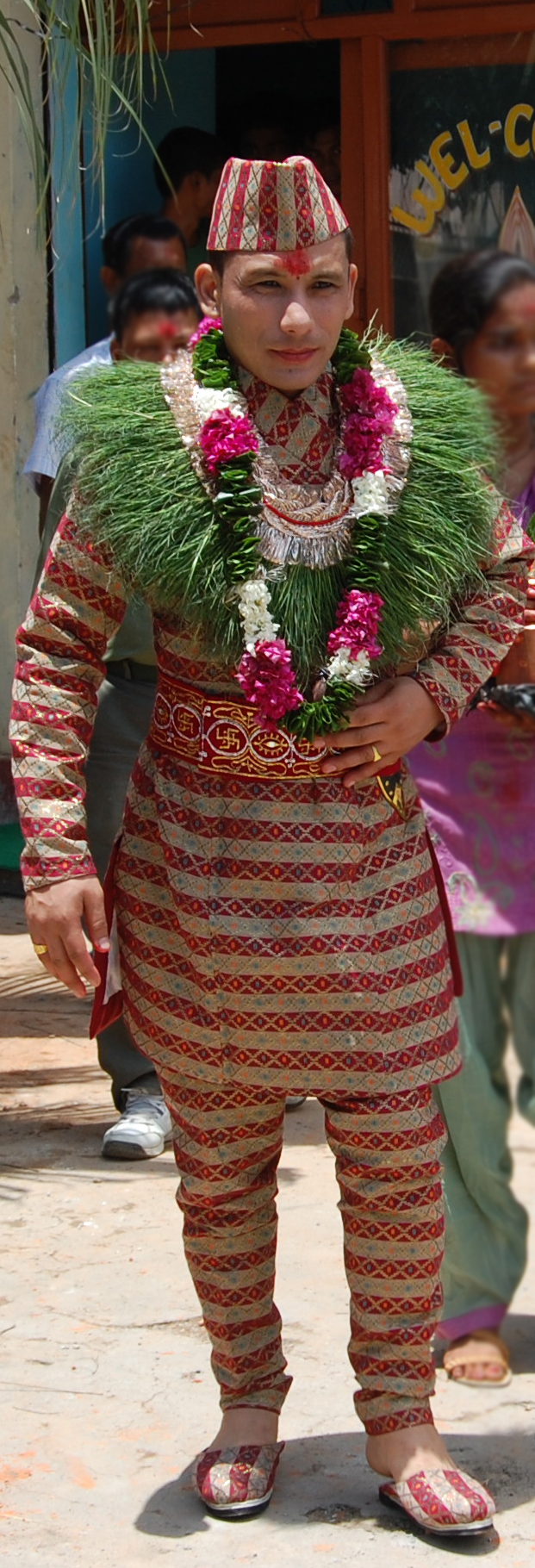 A typical Nepali groom.